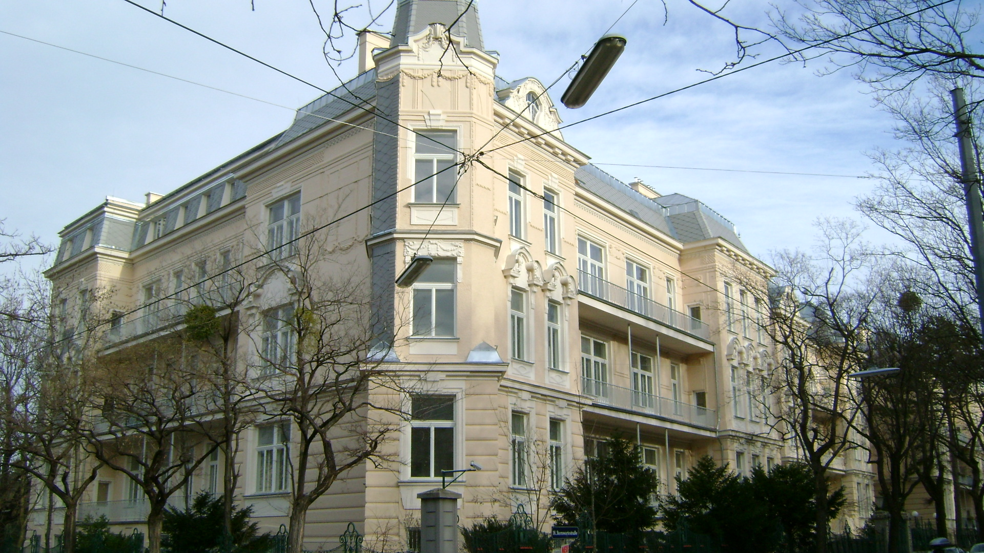 former cottagesanatorium (hospital) in vienna